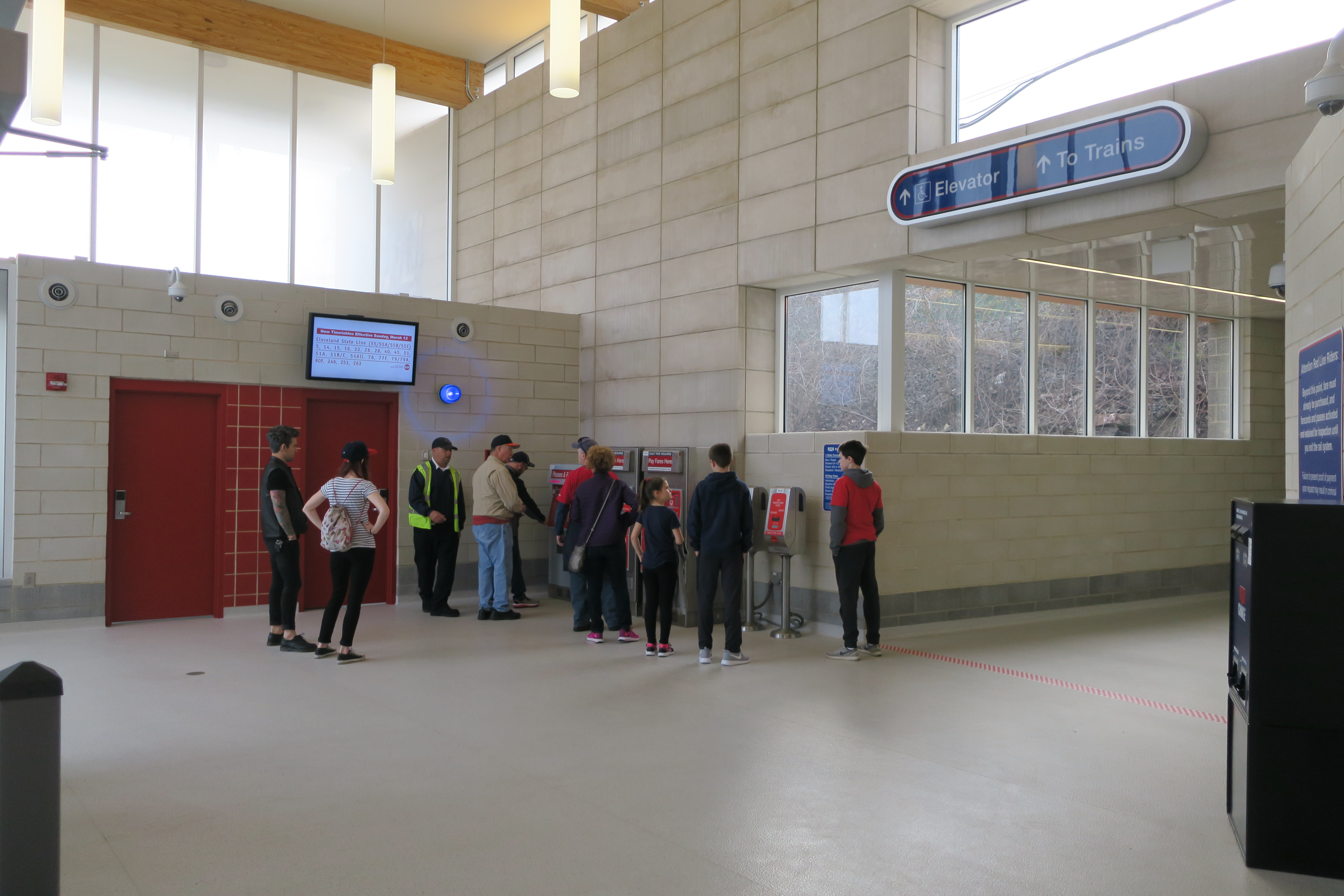 The interior of the entrance at Brookpark, including ticket machines and a passage underneath the tracks to reach the platform.